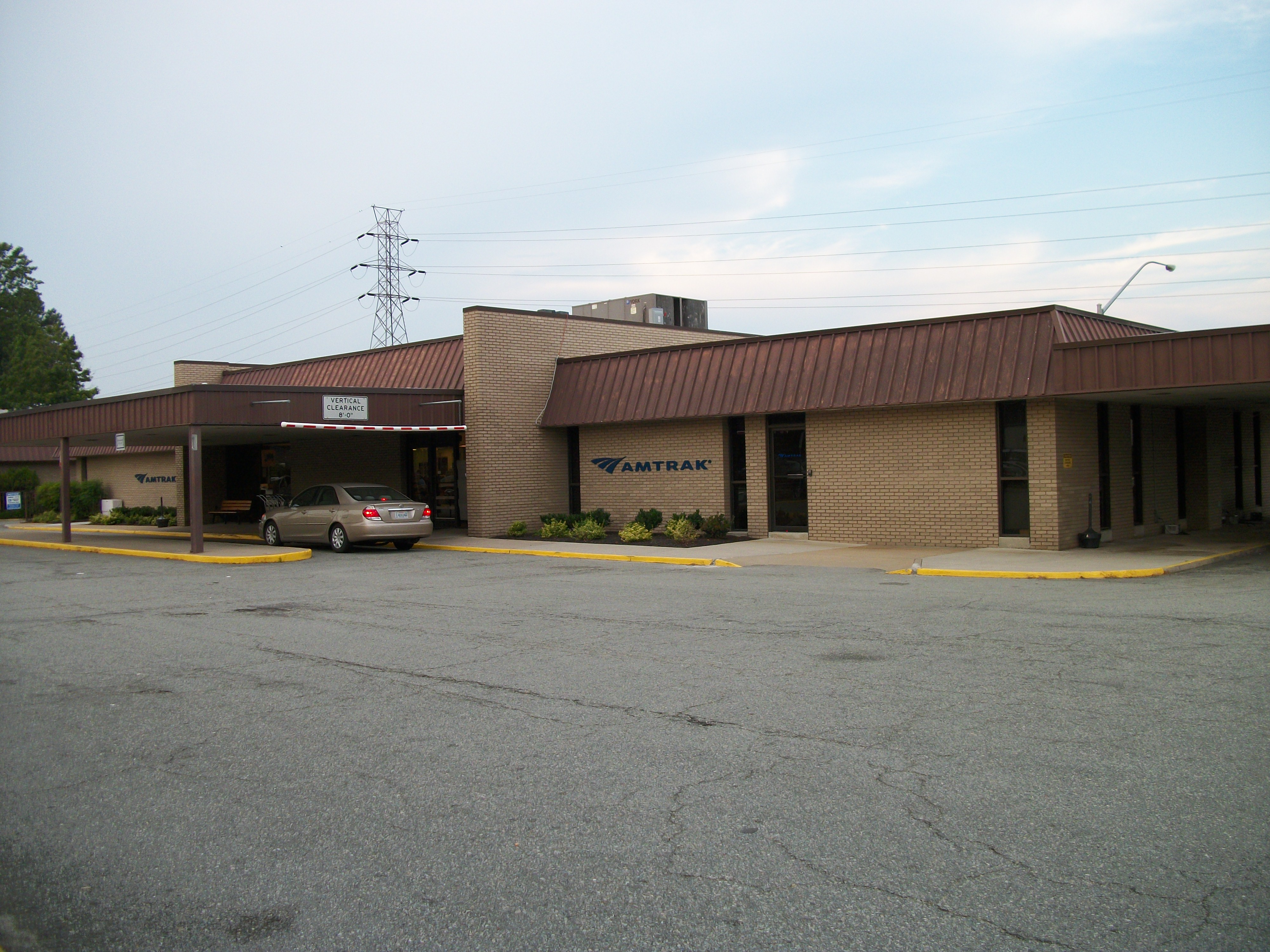 A shot of the Amtrak Station at Staples Mill Road near Richmond, Virginia. I had to park two parking lots away to take this shot, because the parking lot requires a ticket to enter by car, and is protected by a booth.